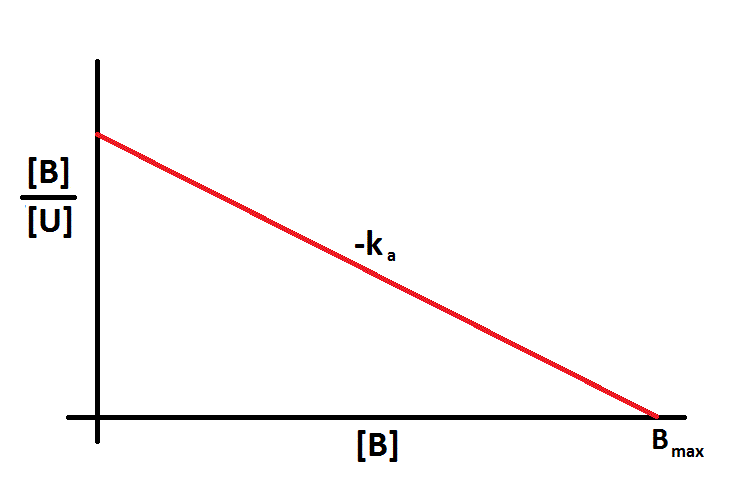 Scatchard Plot